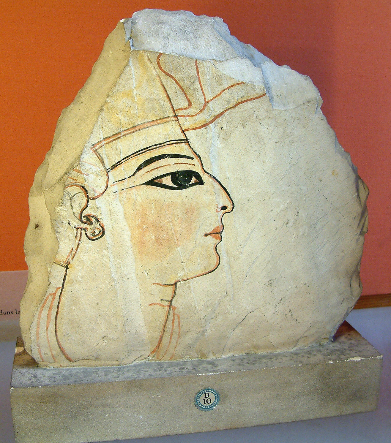 Portrait of a pharaoh, probably Rameses VI. Painted shard of limestone, 1143–1136 BC (20th Dynasty).